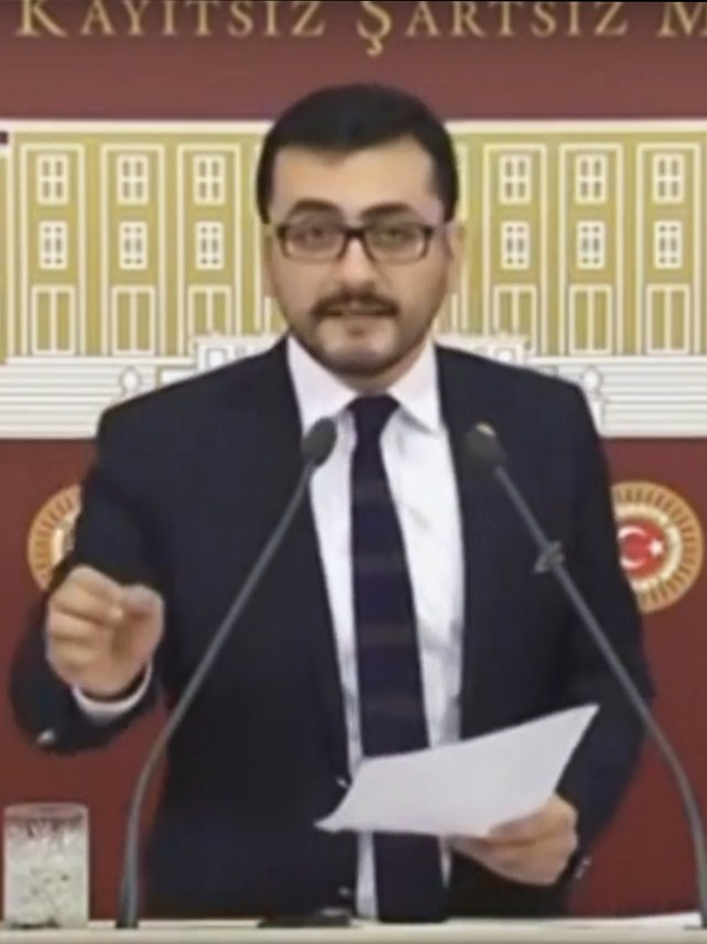 Turkish politician, writer and journalist Eren Erdem